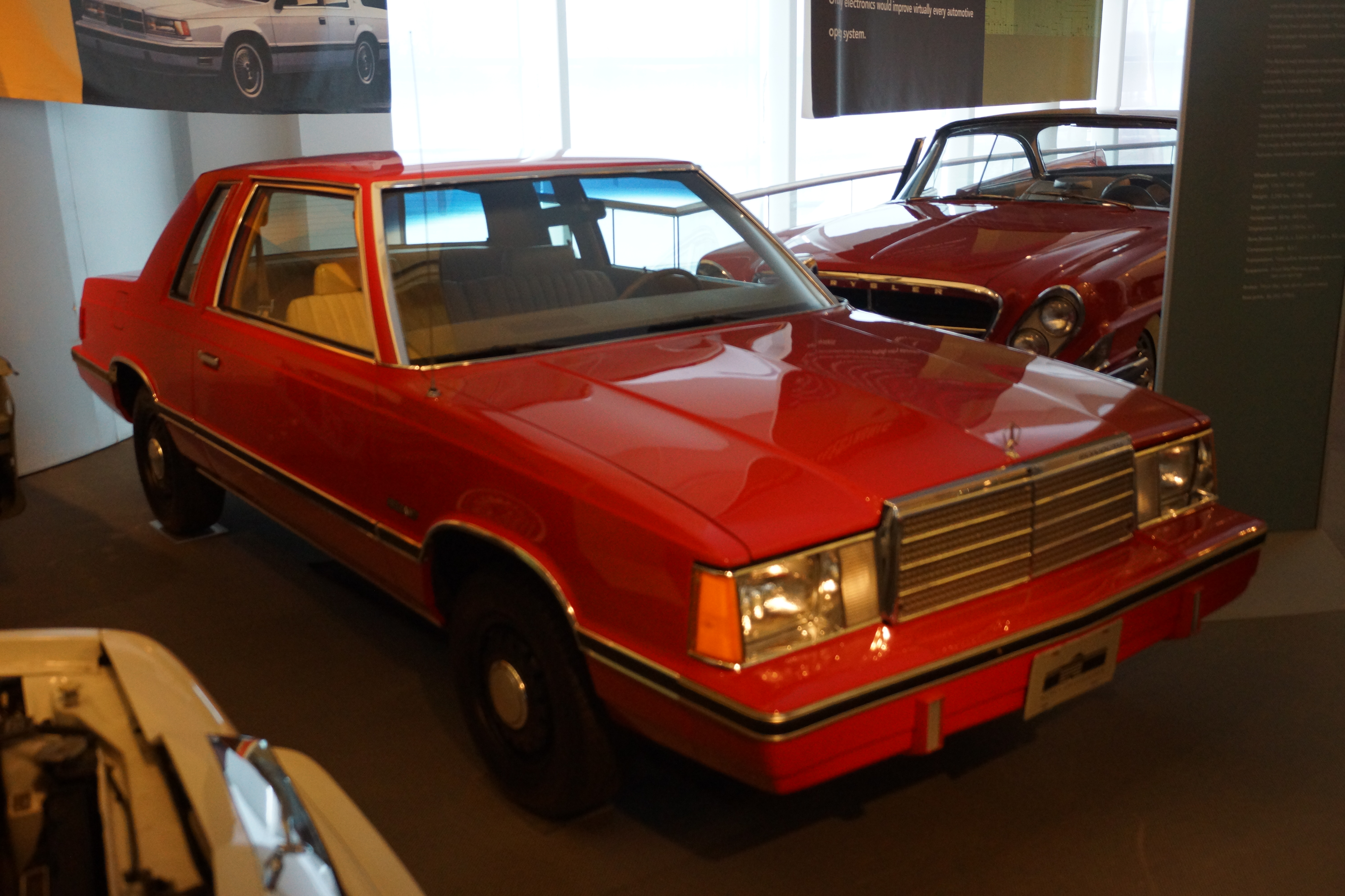 Click here for more car pictures at my Flickr site. Or here for my Car Crazy Tumblr site. Back on November 4th, Hemming's Blog posted an article about the closing of the Walter P. Chrysler Museum . I had missed a couple other opportunities with the WPC Club and others to get into the museum, after it had closed to the public. I did not want to regret missing this last chance to see all of the vehicles before being spread out to other facilities. I trekked from Western Minnesota to Eastern Michigan during Winter Storm Decima. I missed the worst parts of the storm, but still had to endure the aftermath winds, sub zero temperatures and a lake effect snow storm. The trip was difficult, but well worth it. I got to see several Chrysler Corporation concept and show cars that I had only seen pictures of before. There were several clever interactive displays demonstrating various innovations over the years. Since it was the last chance, I duplicated several shots using different camera settings to see what produced better results. I wish I had invested in a strobe light diffuser for all of those indoor pictures. I have not had much experience or success in the past with indoor car images.